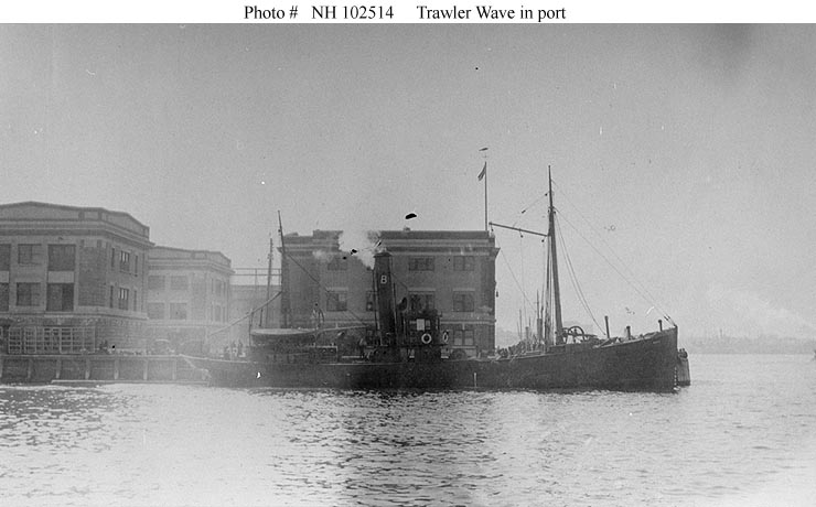 Fishing trawler Wave, considered for United States Navy service as minesweeper USS Wave (SP-1706) in 1917 and 1918 but never taken over by the Navy, photographed prior to World War I